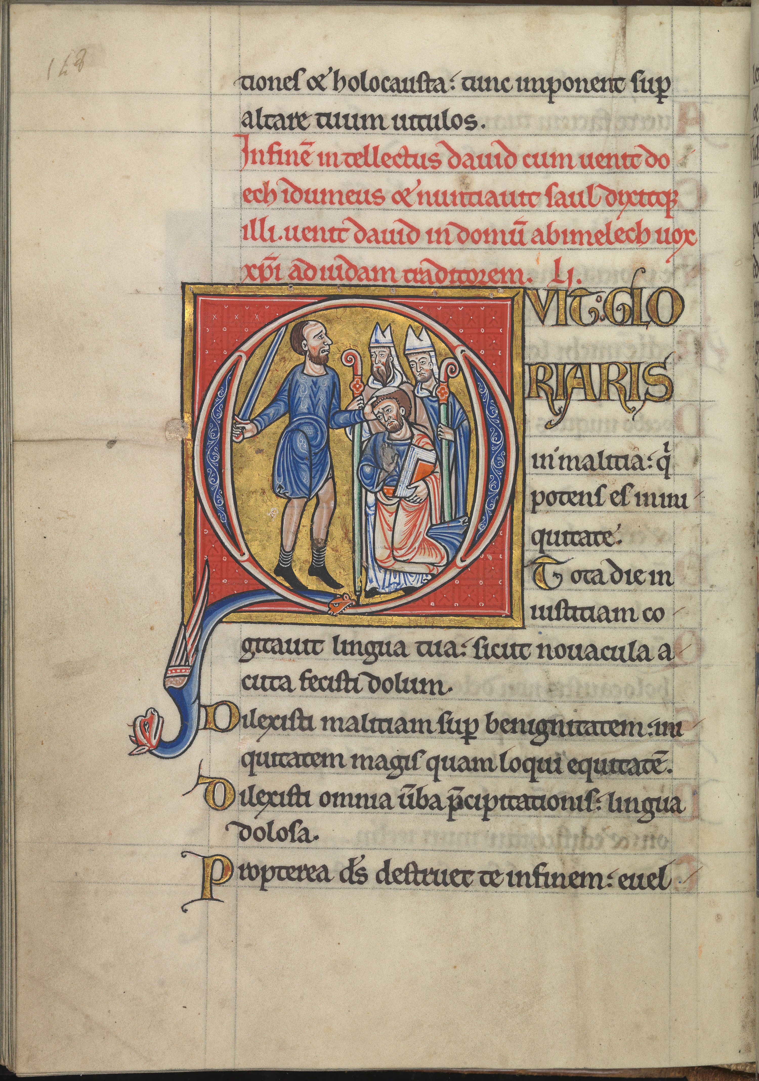 Folium 074v from the Psalter of Eleanor of Aquitaine (ca. 1185) from the collection of the National Library of the Netherlands. The illumination shows Psalm 51, Quit gloriaris in malitia, qui potens es in iniquitate, Doeh kills Achimelech en the priests of Nob.